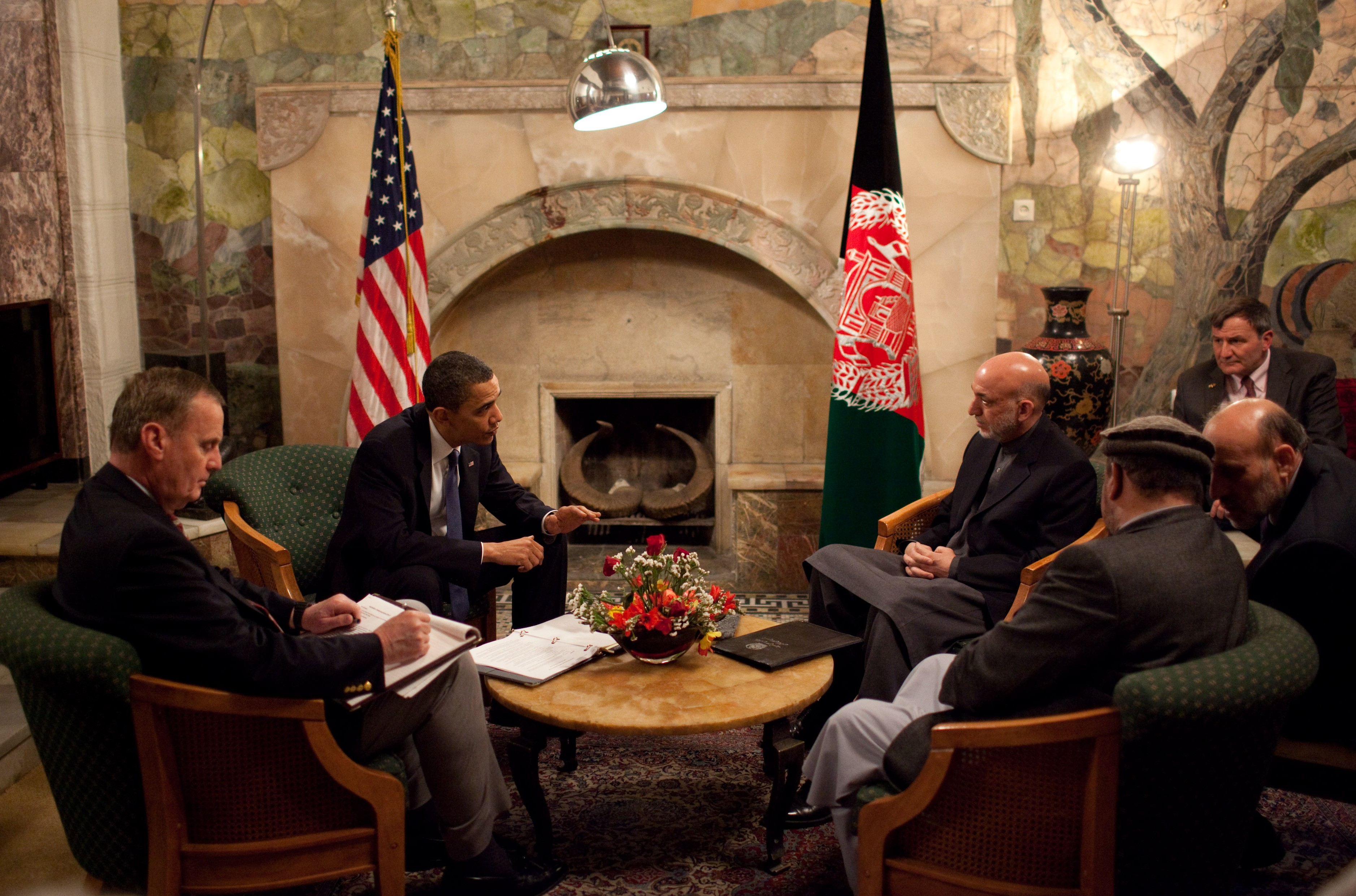 March 28, 2010 "After an unannounced overnight trip to Afghanistan, the President meets with Afghan President Hamid Karzai at his Presidential Palace in Kabul." (Official White House Photo by Pete Souza) License on Flickr (2011-01-12): United States Government Work Flickr tags: Bagram Air Base, Afghanistan